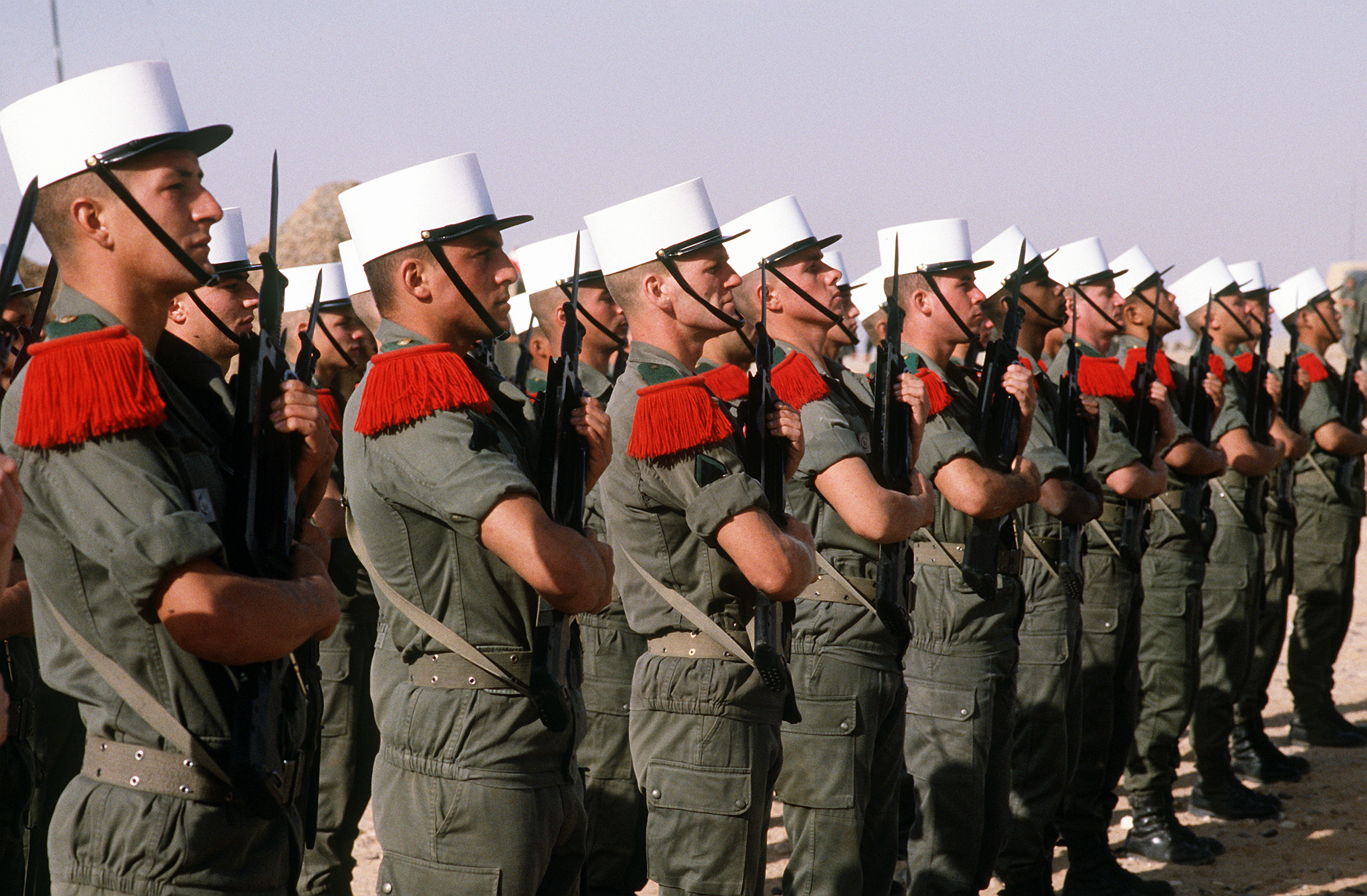 An honour guard from the French Foreign Legion's 6th Battalion stands at attention as they await the arrival of Lt. Gen. Khalid Bin Sultan Bin Abdul Aziz, commander of Joint Forces in Saudi Arabia, during Operation Desert Shield. (Released to Public)